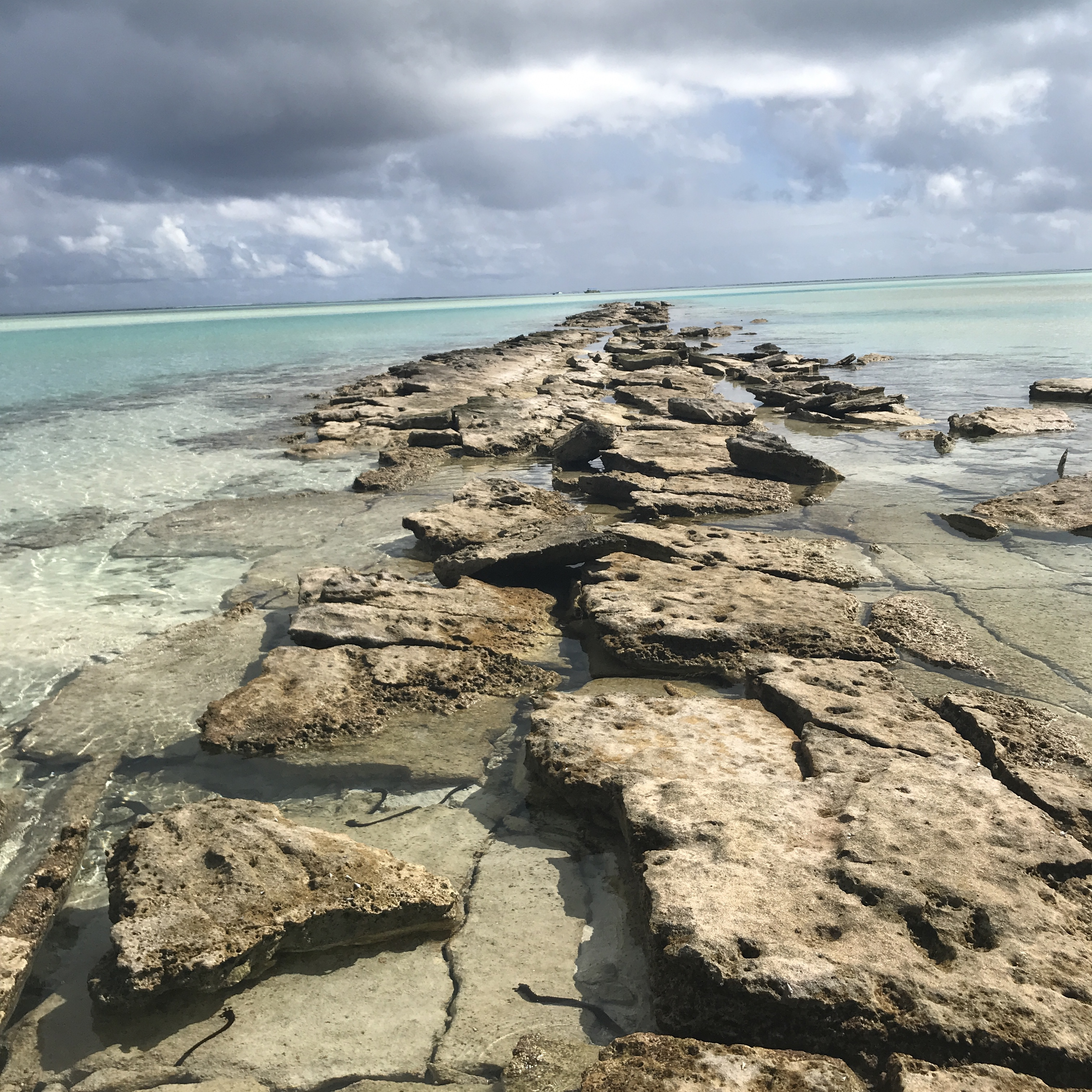 A reef on the atoll of Aitutaki. Photograph by Nick Longrich